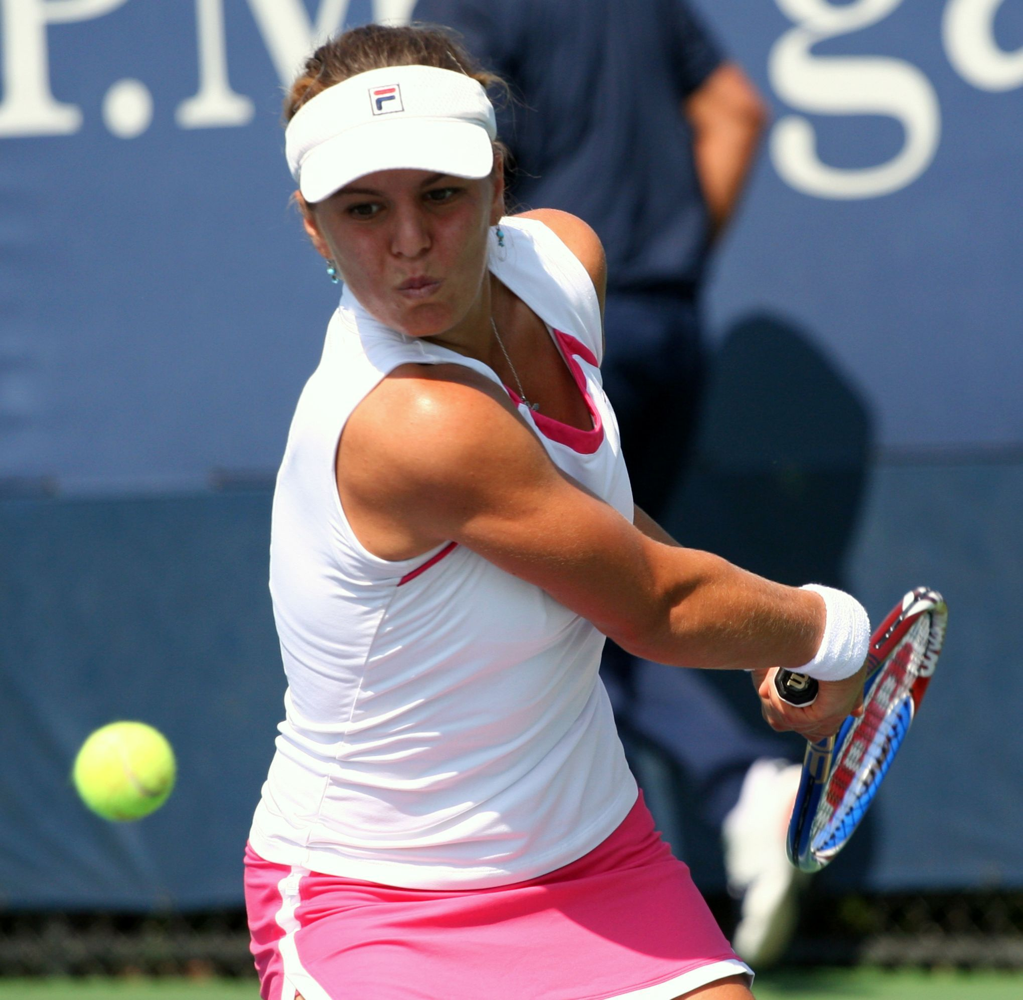 U.S. Open Friday, Sept. 2, 2011